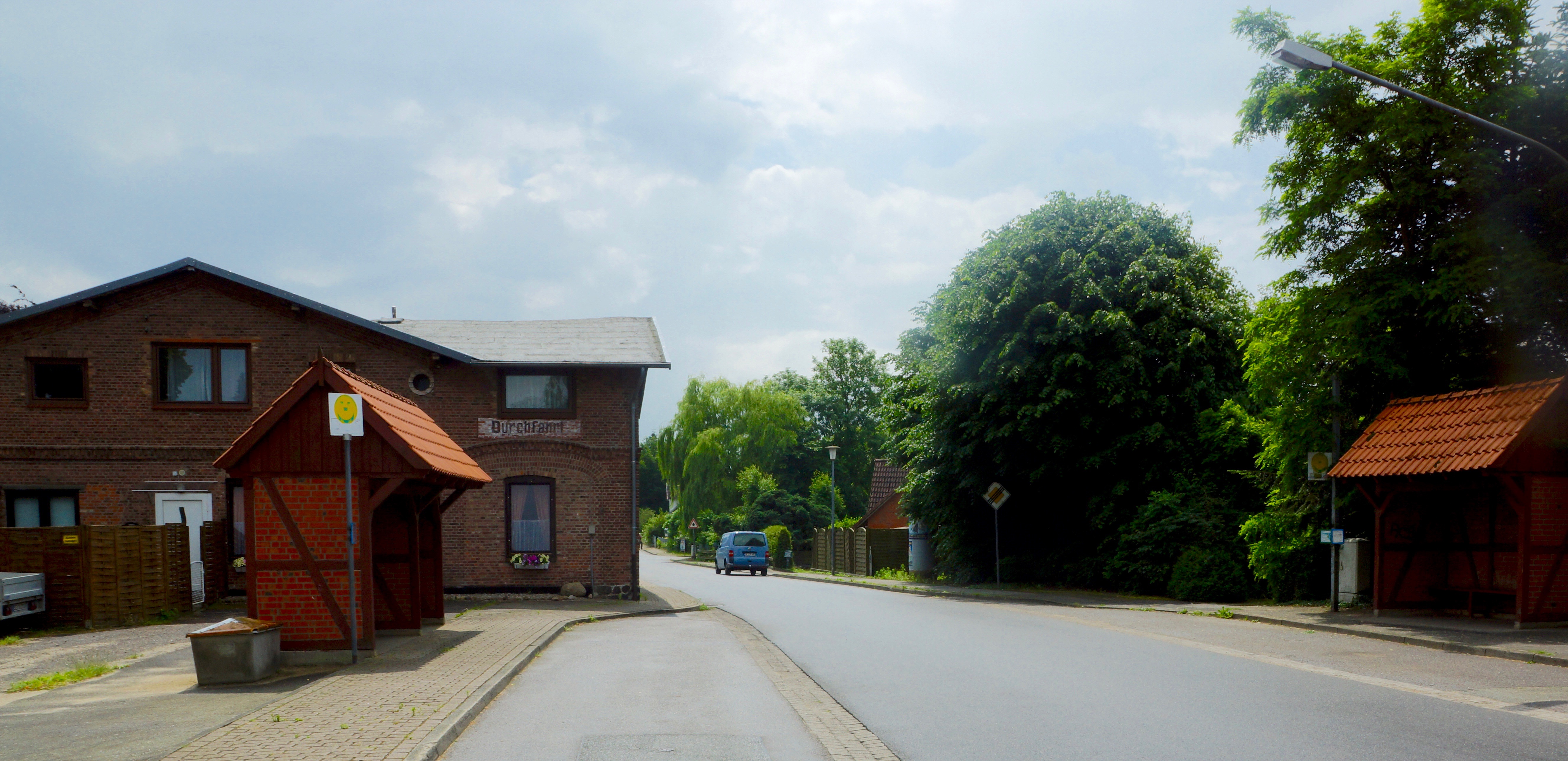 Negernbötel, Germany: High Street